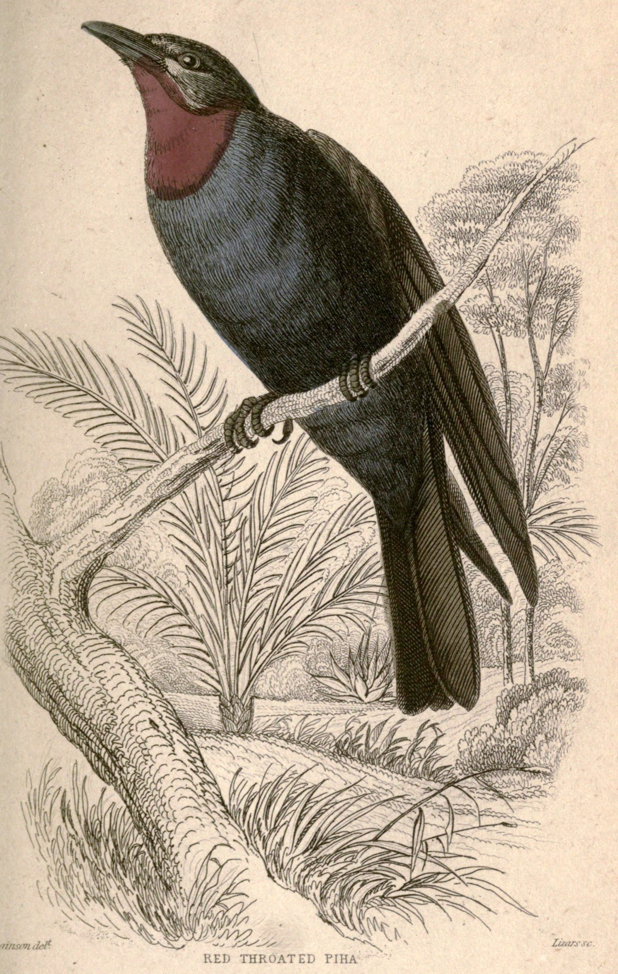 « Querula rubricollis » = Querula purpurata (Purple-throated Fruitcrow)